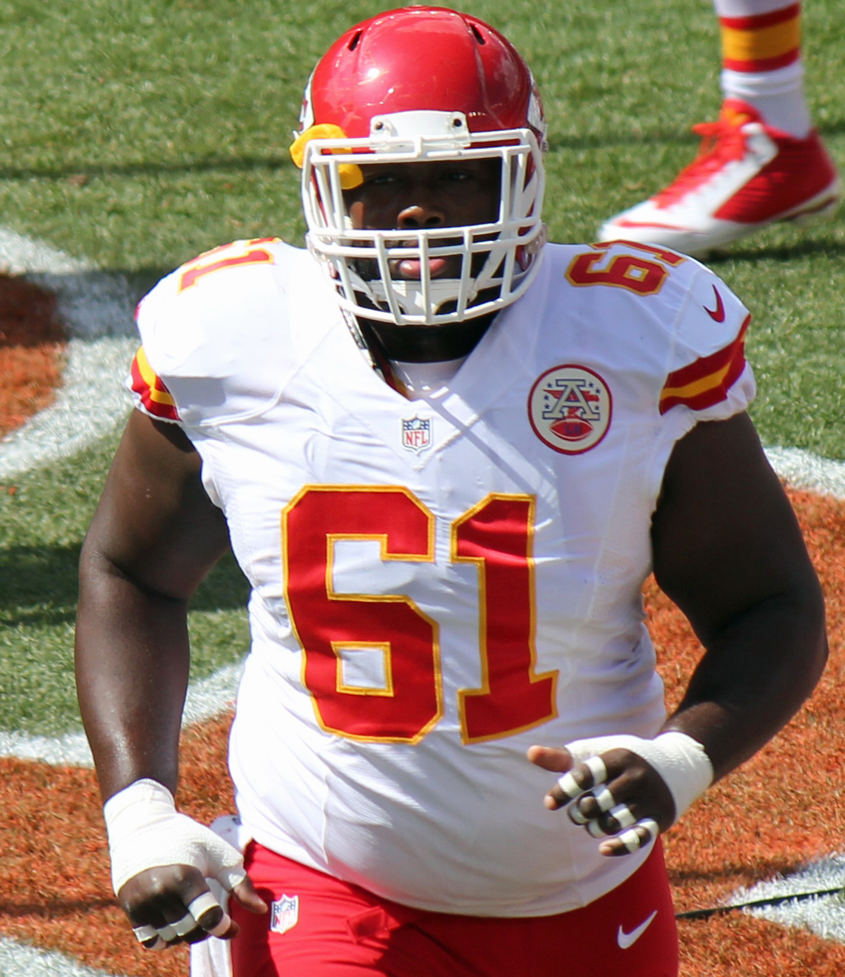 Rodney Hudson, a player on the National Football League.